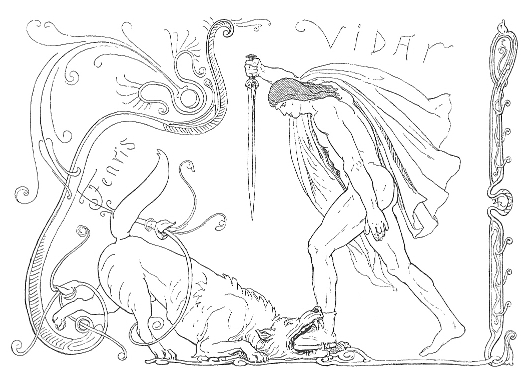 A depiction of the god Víðarr crushing the the wolf Fenrir with his mighty boot (1895) by Lorenz Frølich. Title not given in work.